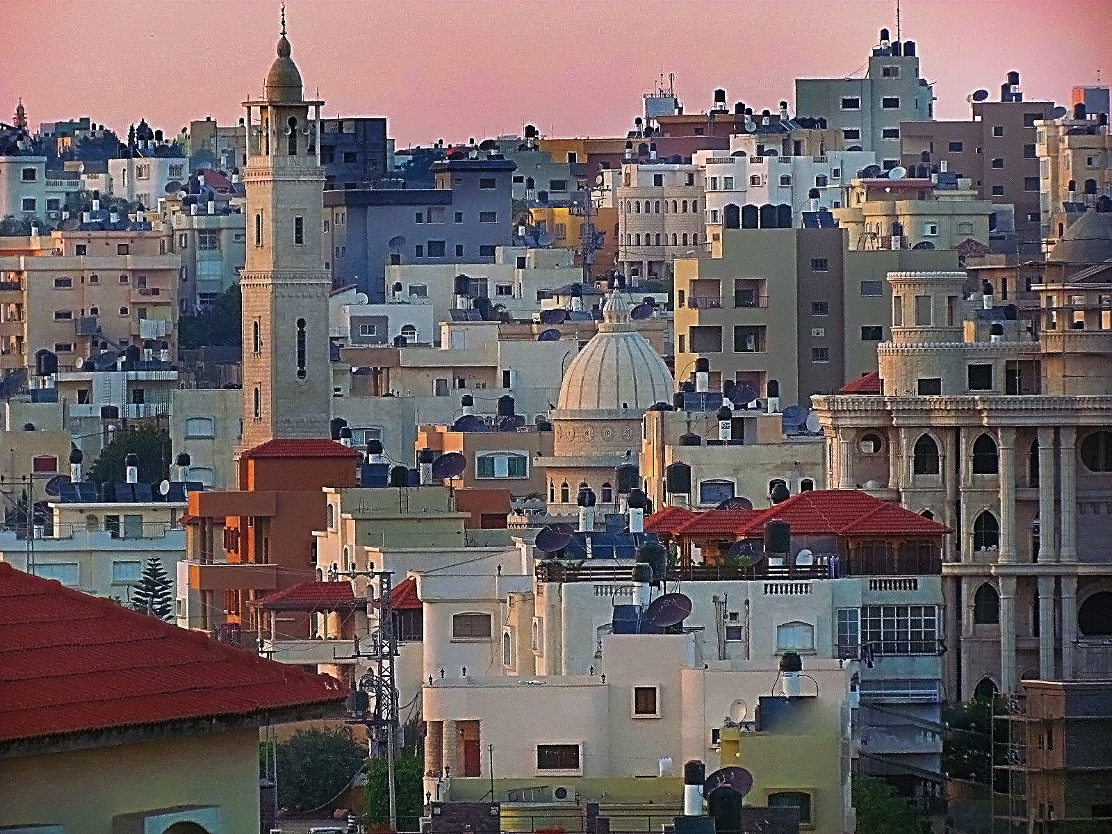 Center of Taybee, Cities in Israel